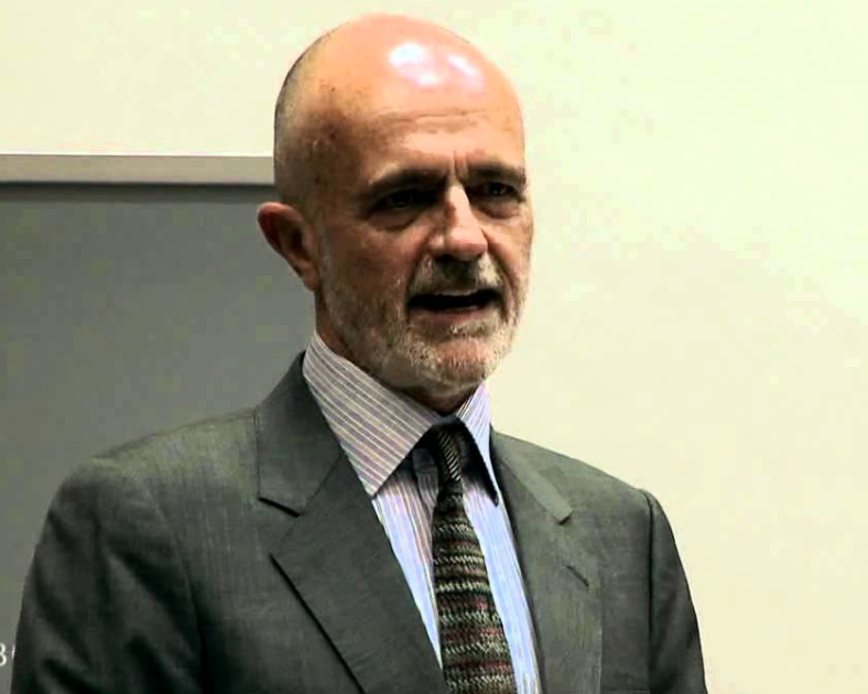 Wim Trengove delivering the keynote address at the launch of Law And Poverty: Perspectives From South Africa